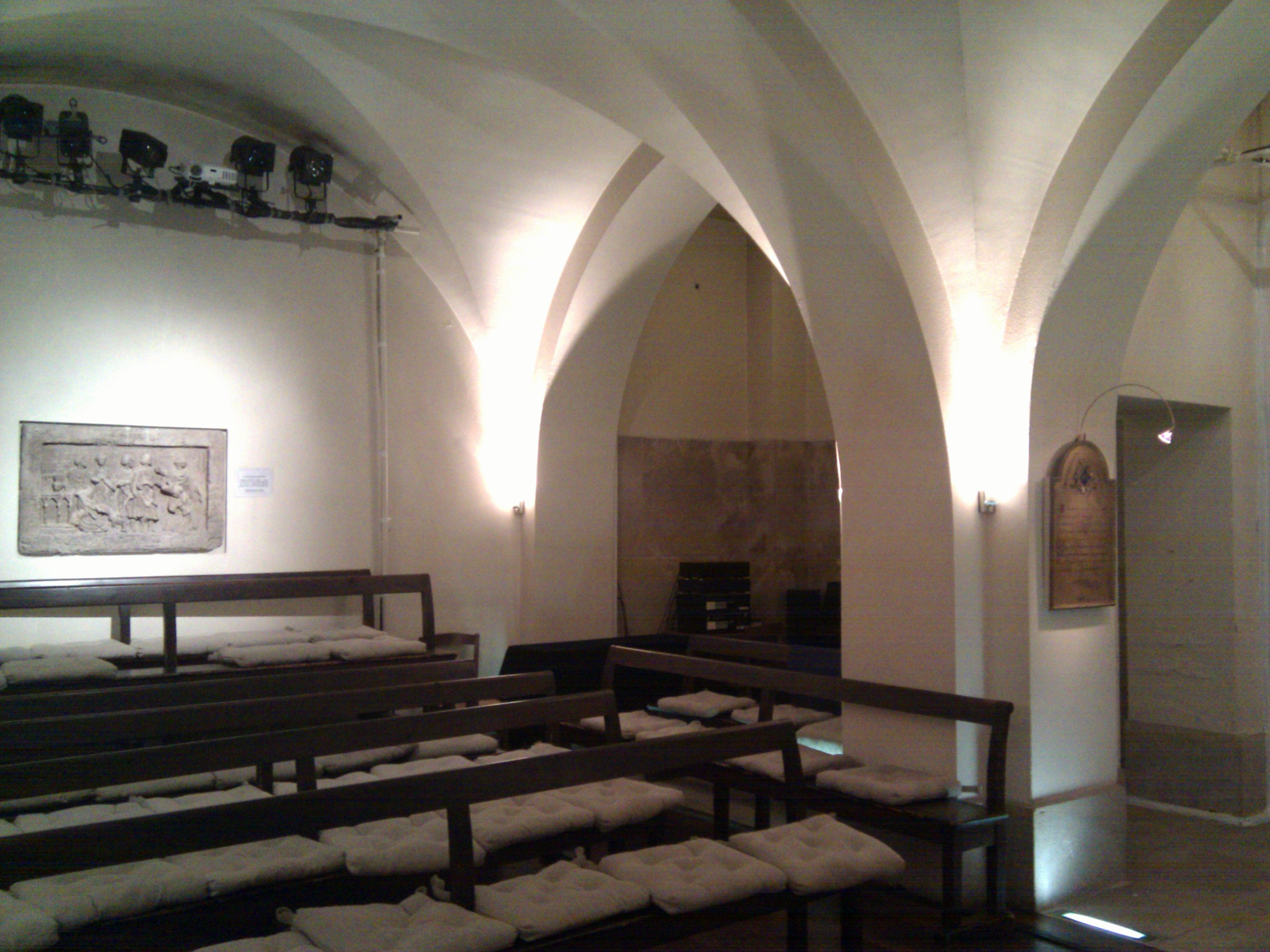 Crypt of the martyrium of St Denis in Montmartre